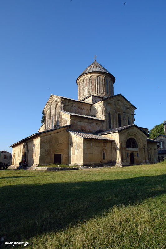 Gelati Monastery The Monastery of the Virgin - Gelati near Kutaisi (Imereti region of Western Georgia) was founded by the King of Georgia David the Builder (1089-1125) in 1106. The Gelati Monastery for a long time was one of the main cultural and intellectual centers in Georgia. It had an Academy which employed some of the most celebrated Georgian scientists, theologians and philosophers, many of whom had previously been active at various orthodox monasteries abroad or at the Mangan Academy in Constantinople. Among the scientists were such celebrated scholars as Ioane Petritsi and Arsen Ikaltoeli. Due to the extensive work carried out by the Gelati Academy, people of the time called it "a new Hellas" and "a second Athos". The Gelati Monastery has preserved a great number of murals and manuscripts dating back to the 12th-17th centuries. In Gelati is buried one of the greatest Georgian kings, David the Builder (Davit Agmashenebeli in Georgian).